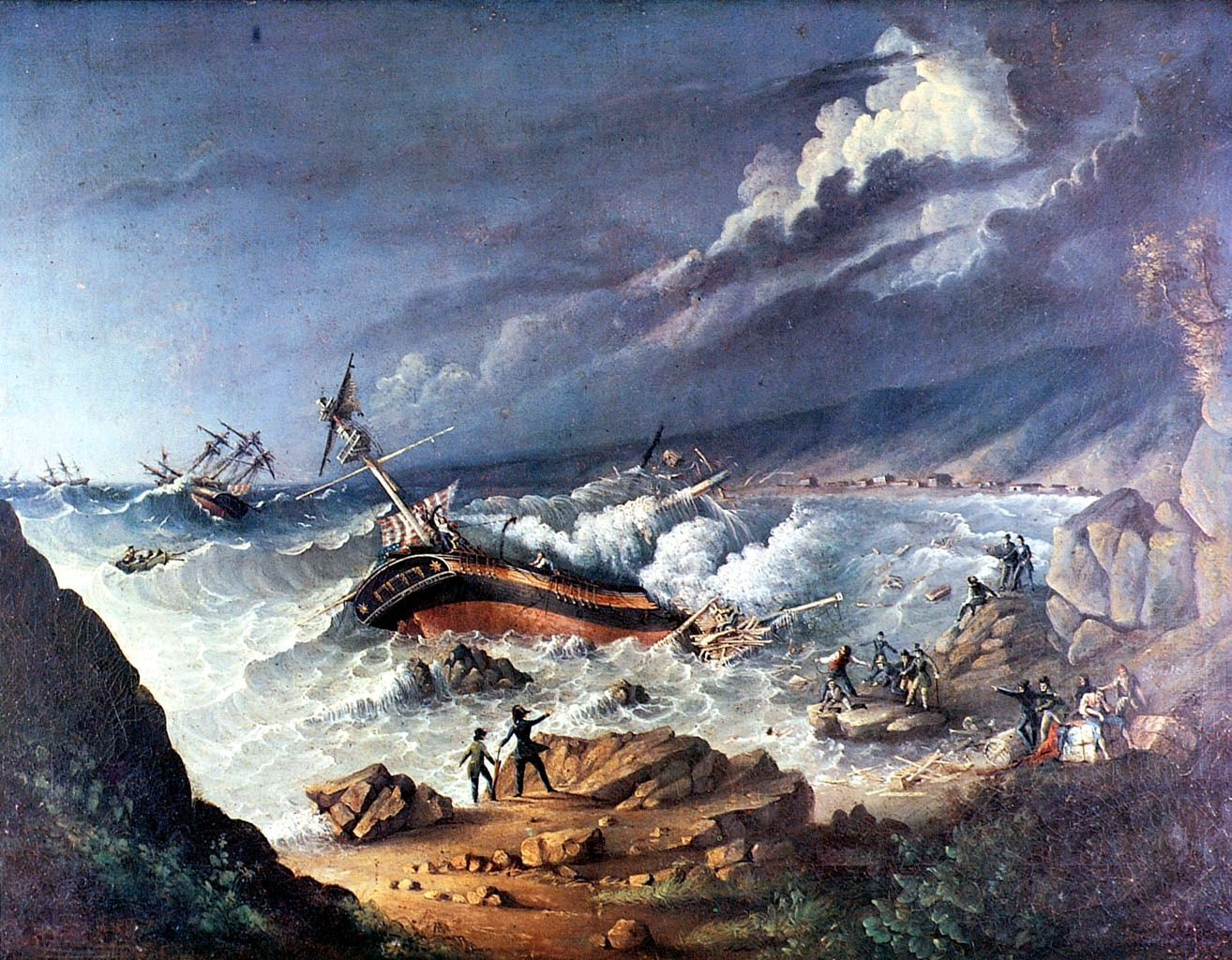 The The American frigate Arethusa was wrecked in 1826, the same year that Wood painted the picture, in the rocky areas of Cruz de Reyes; corresponds to the place where the Turri watch is located today (source)